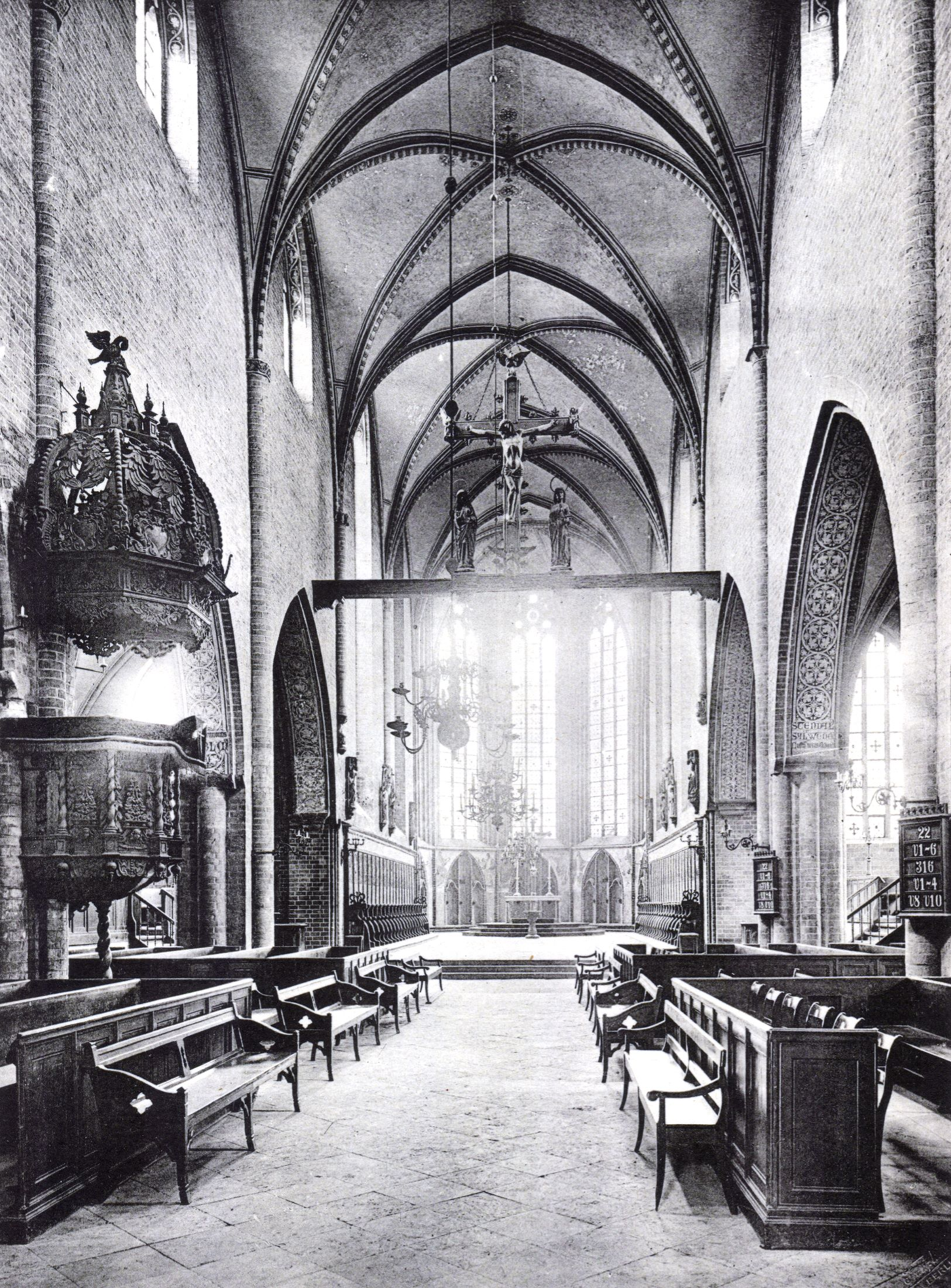 Berlin - Franziskaner-Klosterkirche, interior view 1896